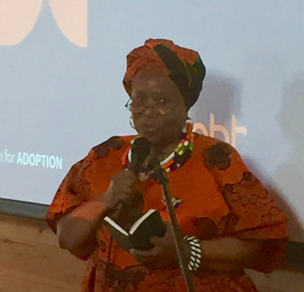 Queen Anne Zondo, South-Africas ambassador to Norway